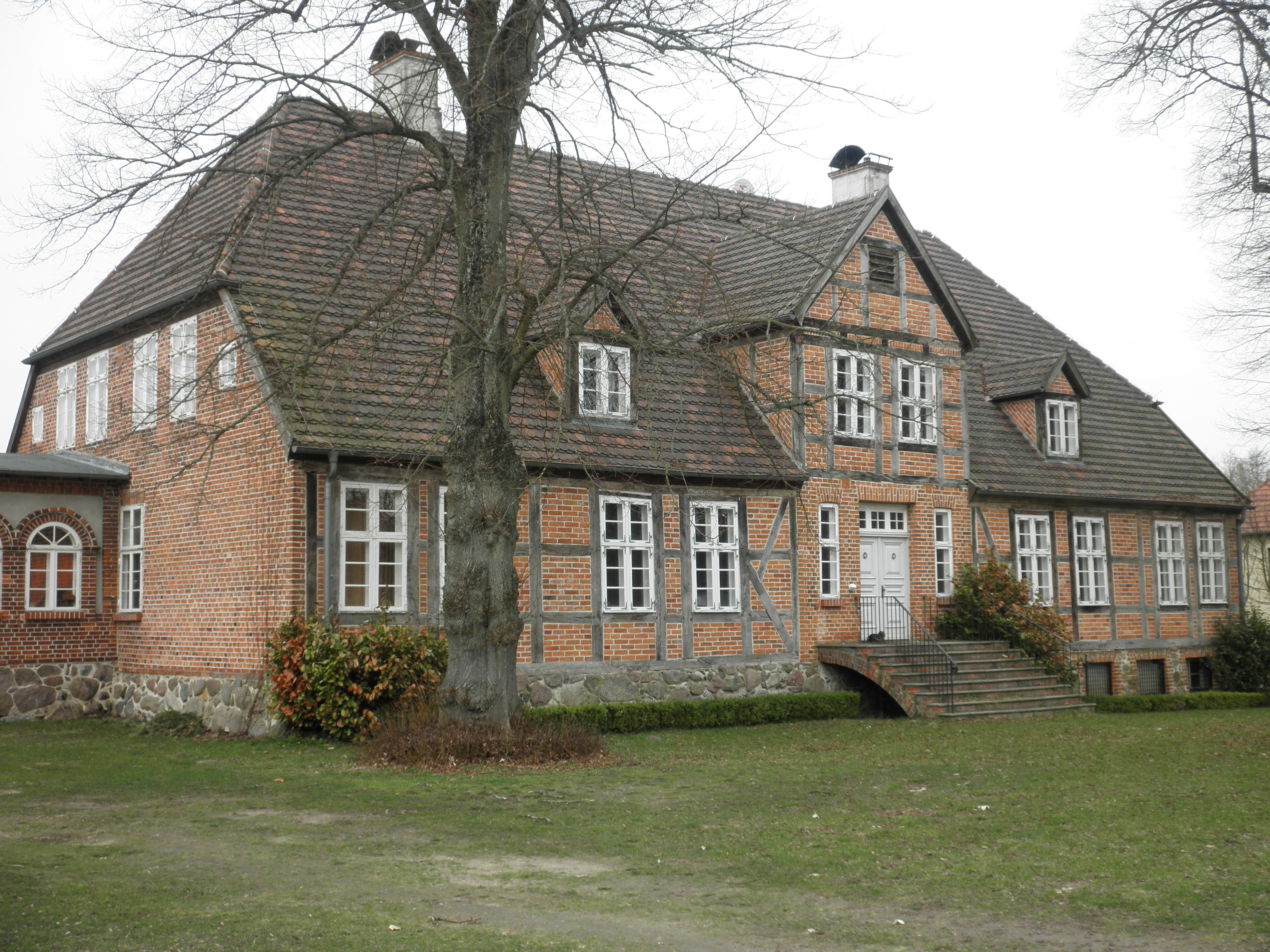 Manor house in Glave, Mecklenburg-Vorpommern, Germany